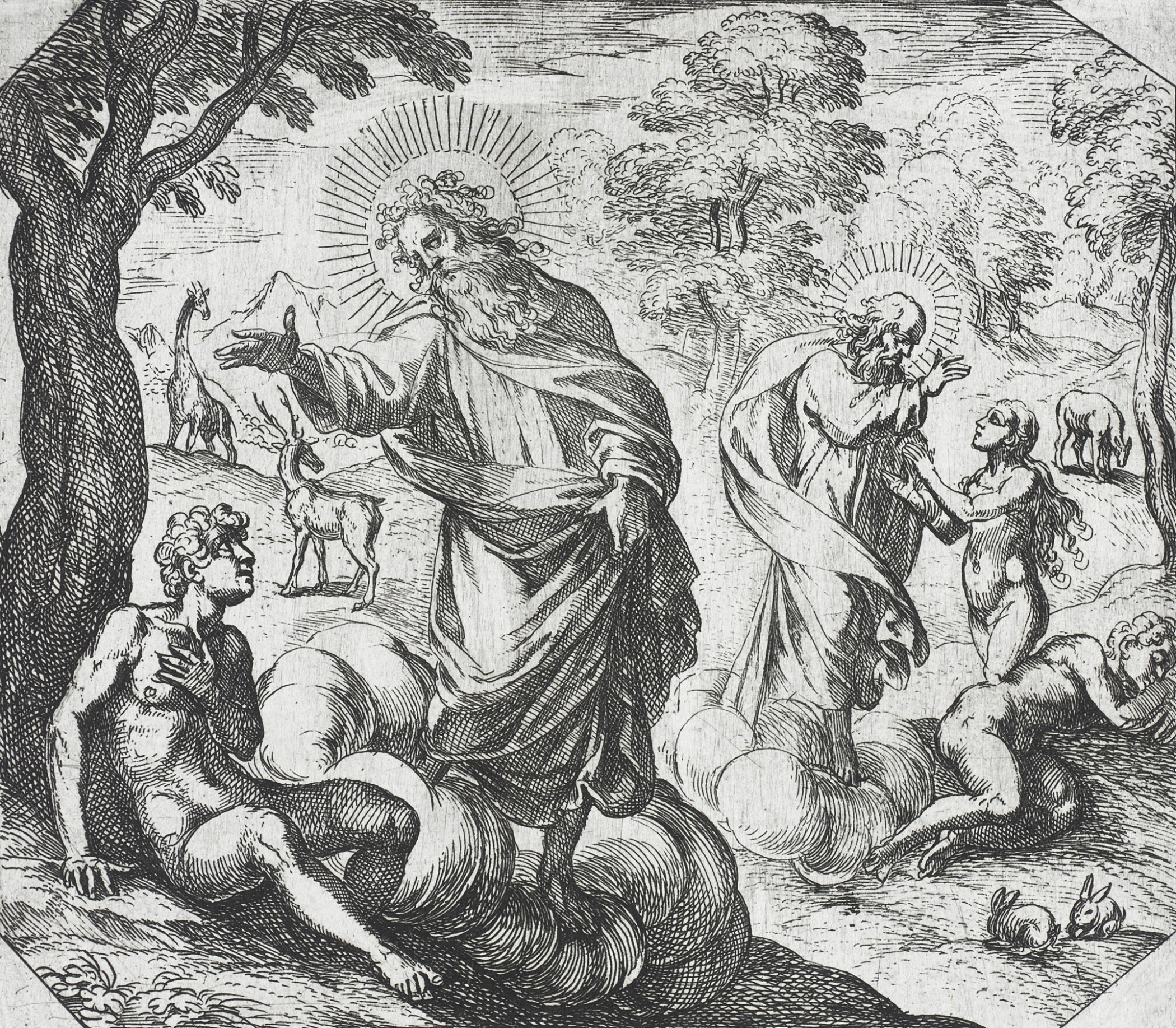 Italy, circa 1600 Series: The Creation of the World Prints; etchings Etching Los Angeles County Fund (65.37.60) Prints and Drawings